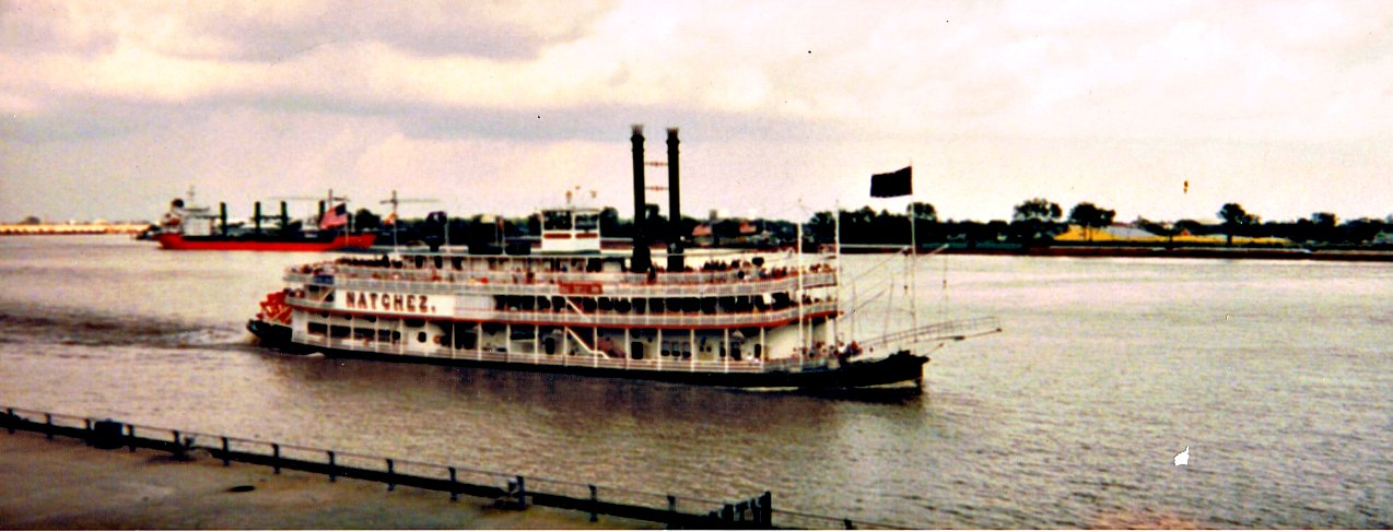 Steamboat Natchez at New Orleans, 1998. A very memorable trip for me, meeting up with a lady friend from Paris and cruising the streets dining and drinking in the sights and sounds of the Big Easy. Taken with a Kodak Advantix on Panoramic setting, one of three options :-)